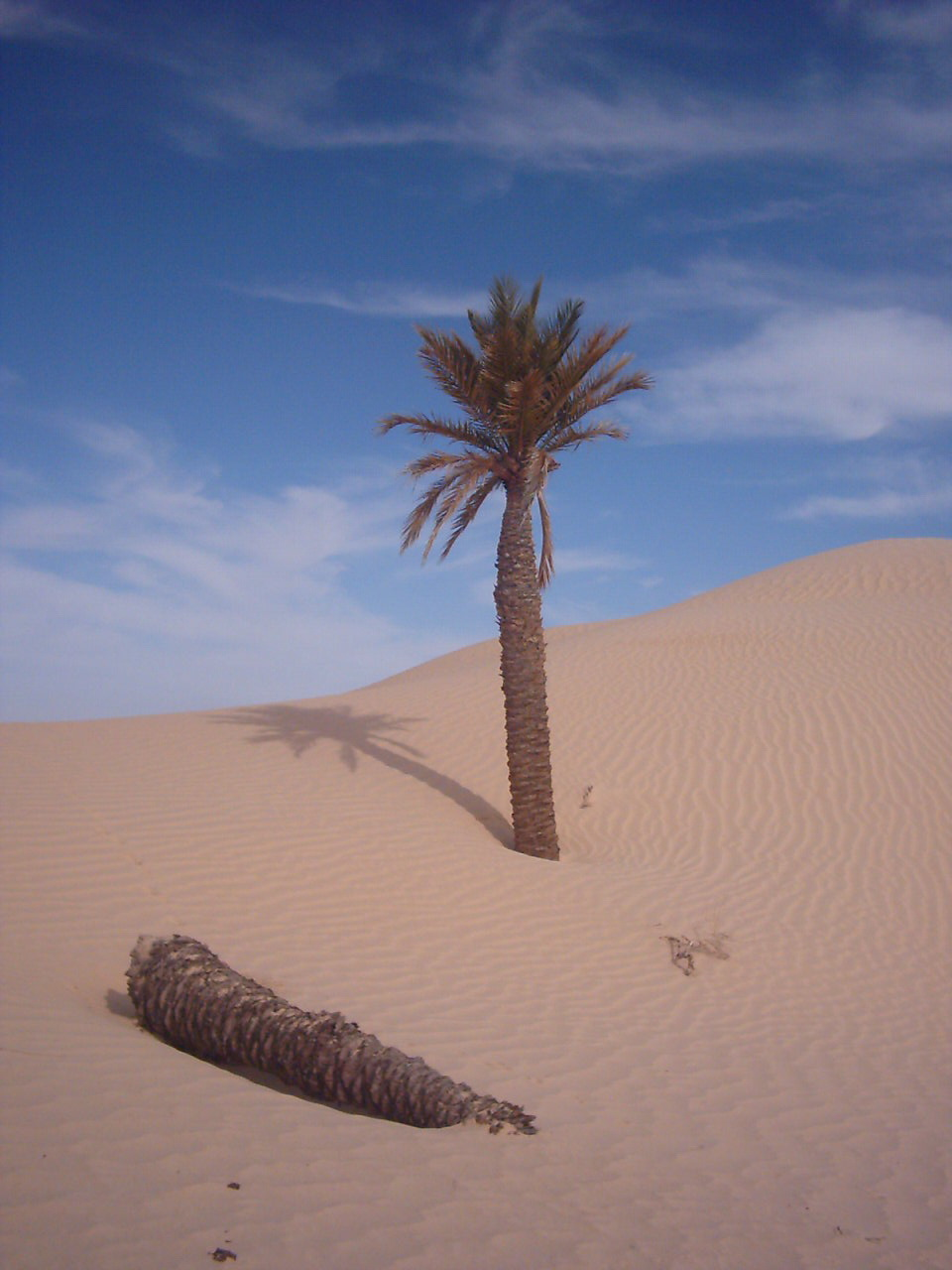 Dune and Palm tree in South of Tunisia